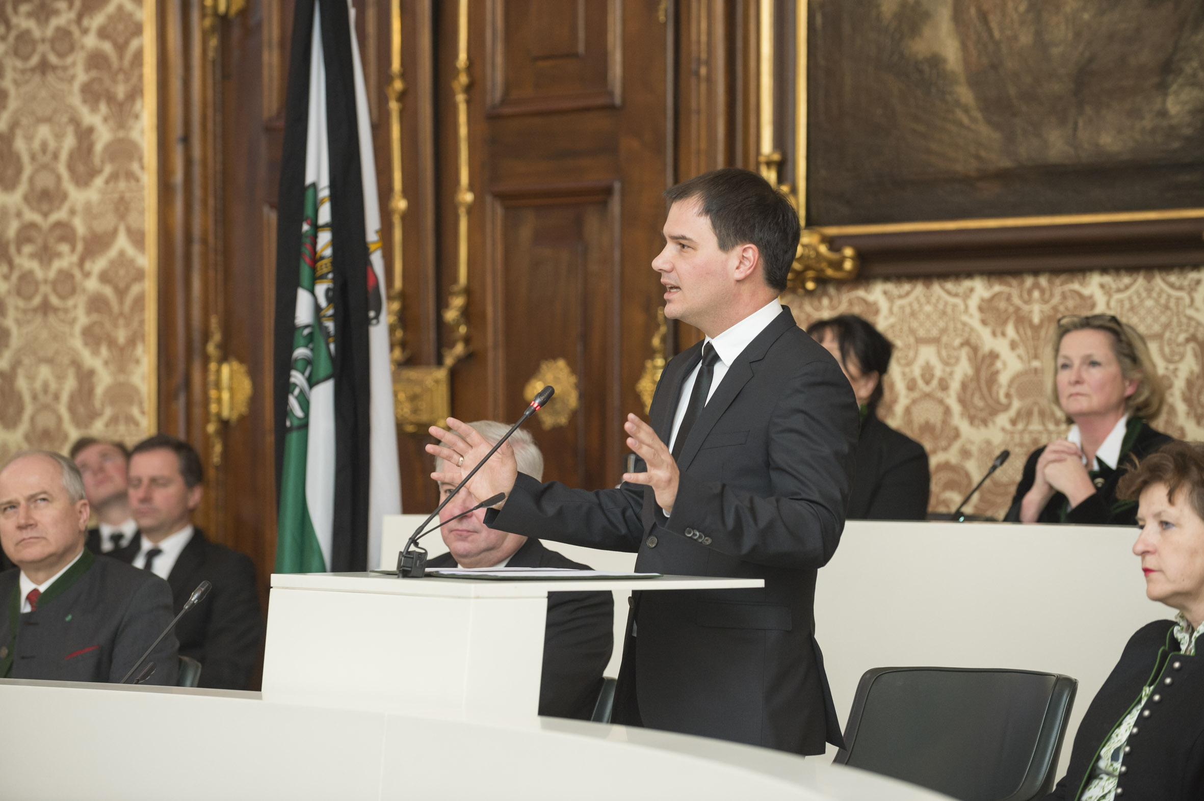 Schickhofer anlässlich einer Rede im steirischen Landtag (© Foto Fischer)